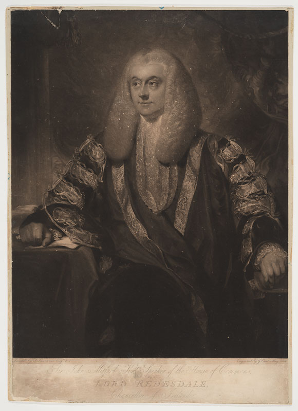 Portrait of John Freeman-Mitford, 1st Baron Redesdale (1748-1830)